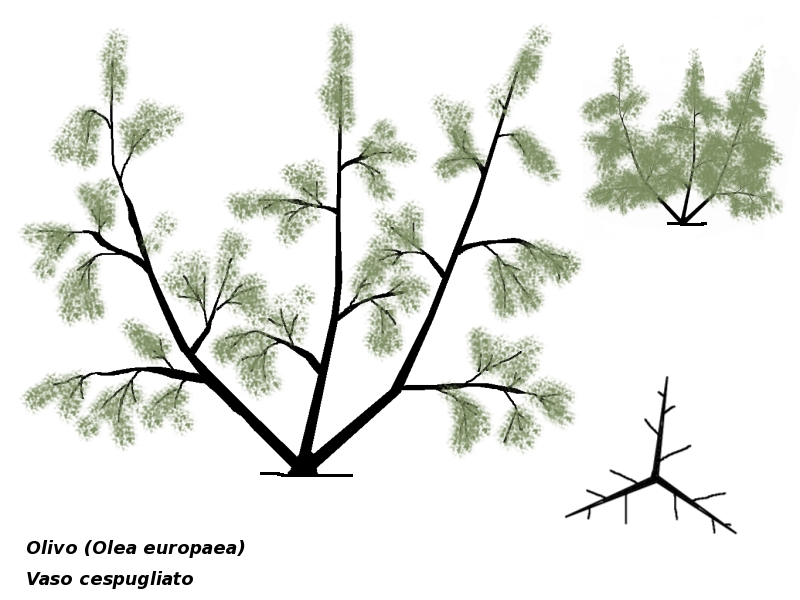 Olive growing system: "Vaso cespugliato" (a vase form without trunk)